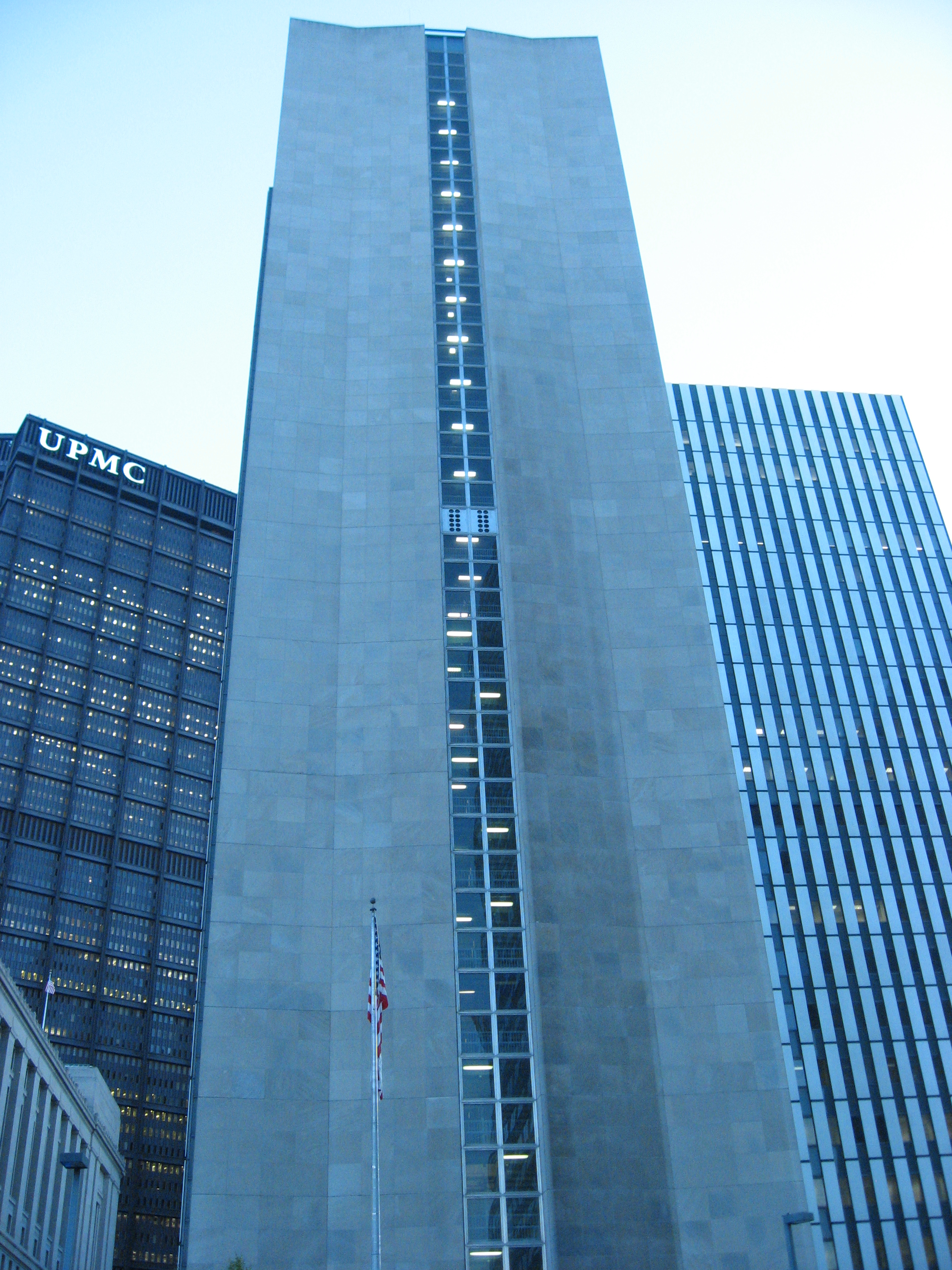 View of the northeast face of the William S. Moorhead Federal Building in downtown Pittsburgh, Pennsylvania, United States, with a UPMC building in the background. Picture taken from across Liberty Avenue; address 1000 Liberty.